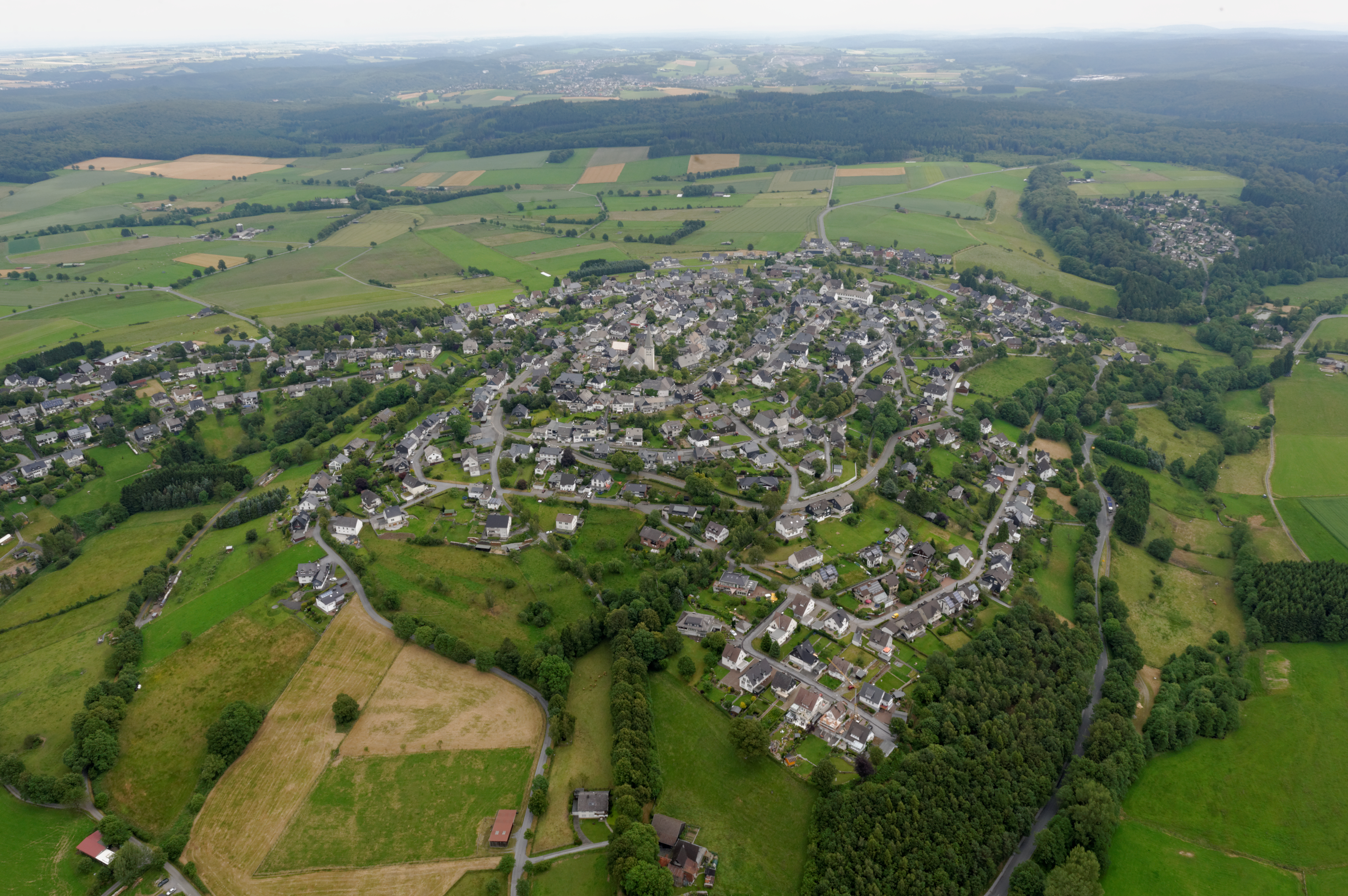 Fotoflug Sauerland Nord, Hirschberg aus Richtung Westen The making of this document was supported by the Community-Budget of Wikimedia Germany.